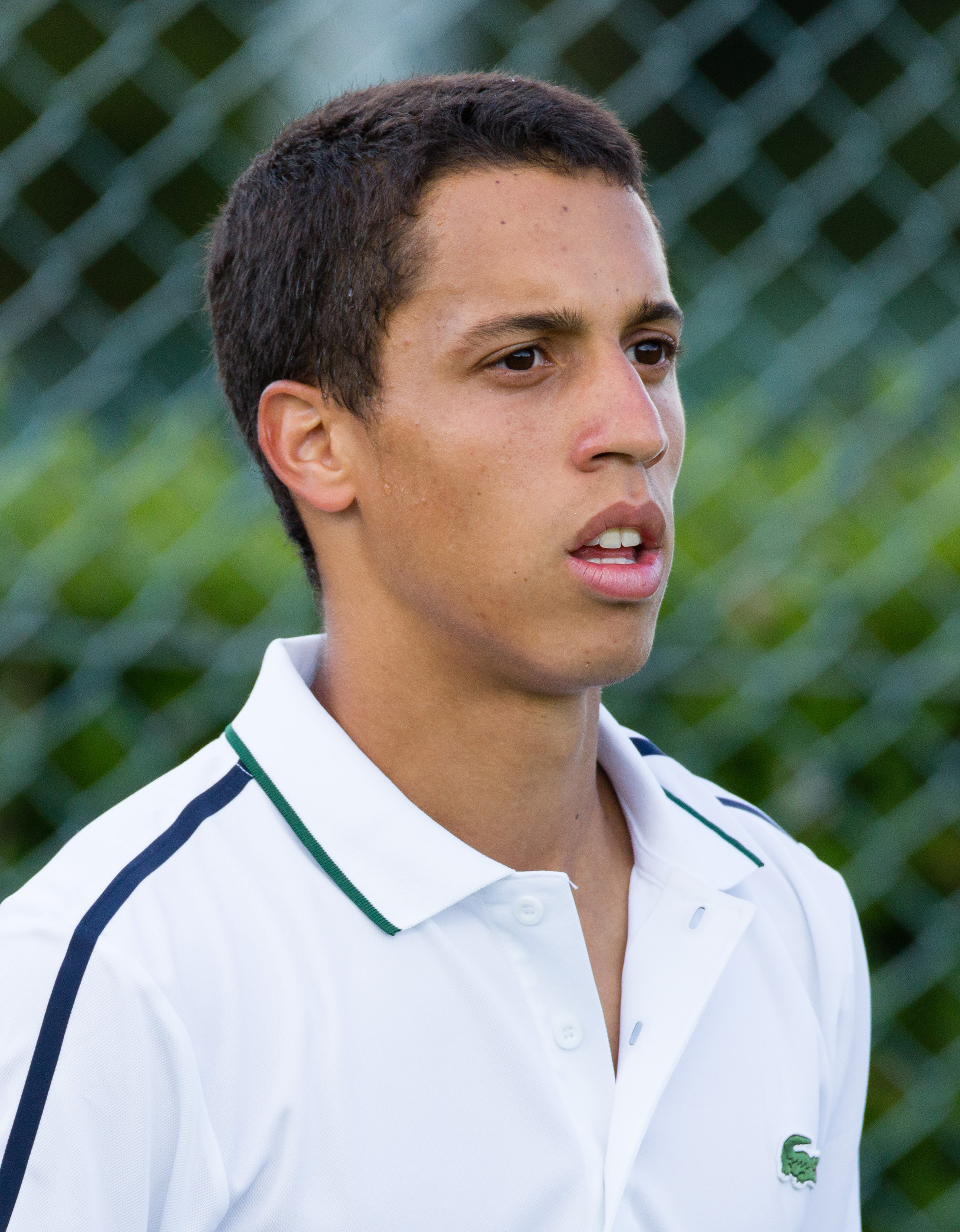 Tristan Lamasine competing in the first round of the 2015 Wimbledon Qualifying Tournament at the Bank of England Sports Grounds in Roehampton, England. The winners of three rounds of competition qualify for the main draw of Wimbledon the following week.